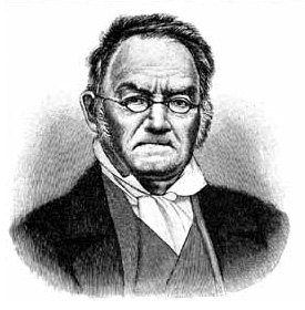 Carl Ritter (1779 - 1859) German geographer.